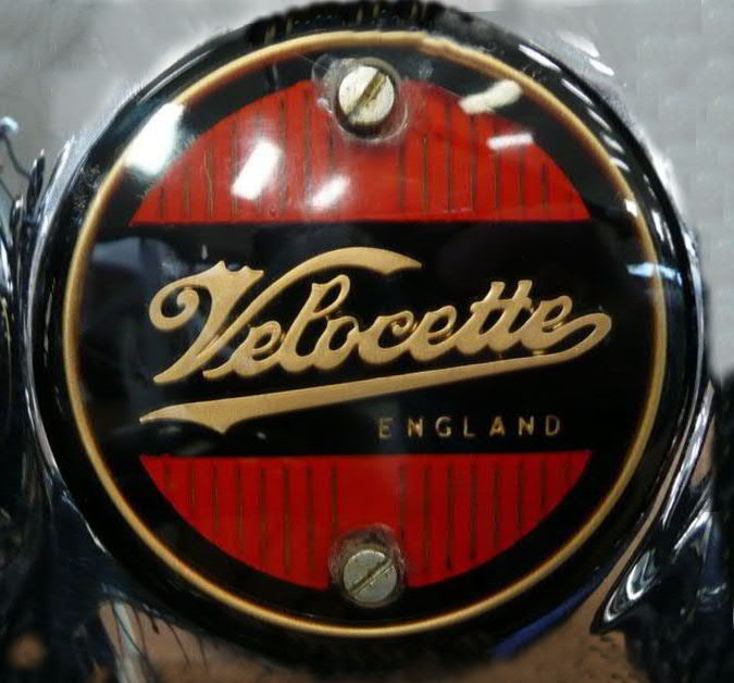 Velocette motorcycle badge from a 1959 Venom